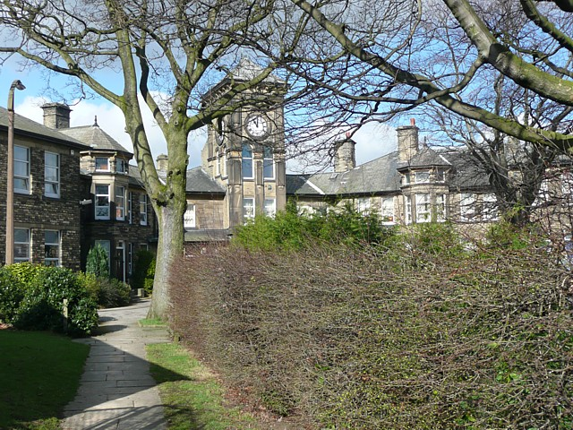 The William Henry Smith School, Boothroyd, Rastrick The name Boothroyd appears in the manorial court roll of 1272. The present building was built has a house in the mid-Victorian period and was acquired by Alderman William Smith in 1915. He converted it into a hospital for wounded soldiers, and in 1920 the building was extended and it became an orphanage. In 1961 it became a school for boys with special needs, named after Alderman Smith's adopted son. (Information from 'Buildings of Brighouse' by David Nortcliffe)